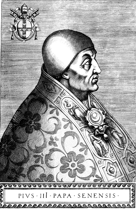 Pope Pius III